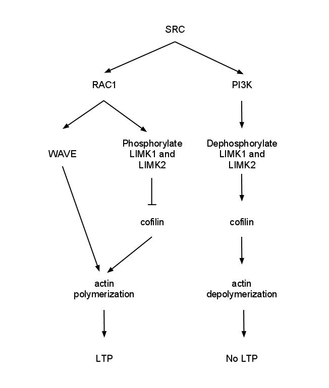 Several pathways that go through SRC which lead to actin remodelling and either LTP or no LTP.